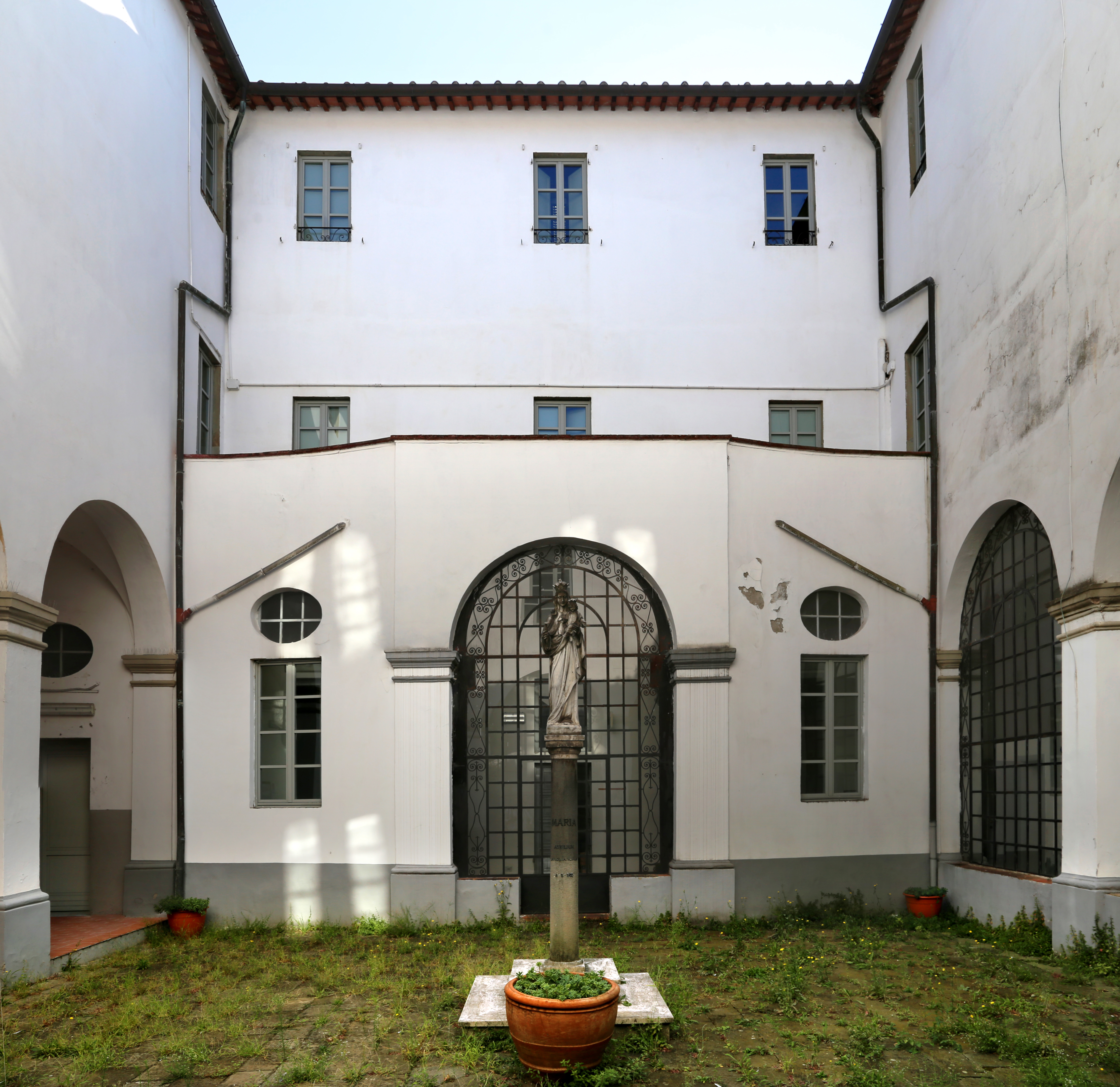 Liceo Lorenzini (Pescia)